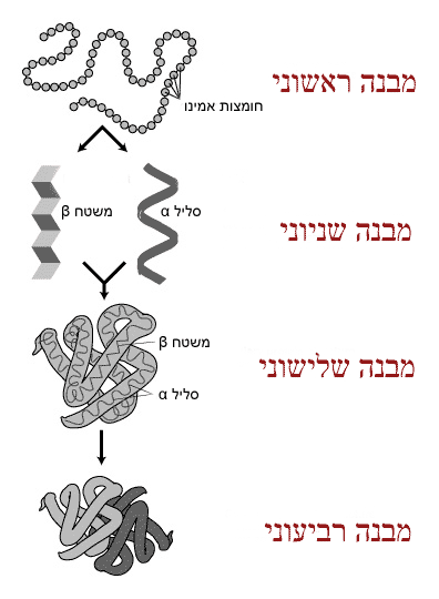 היררכיית מבנה החלבון. לקוח מ-Talking Glossary of Genetics: "All of the illustrations in the Talking Glossary of Genetics are freely available and may be used without special permission."